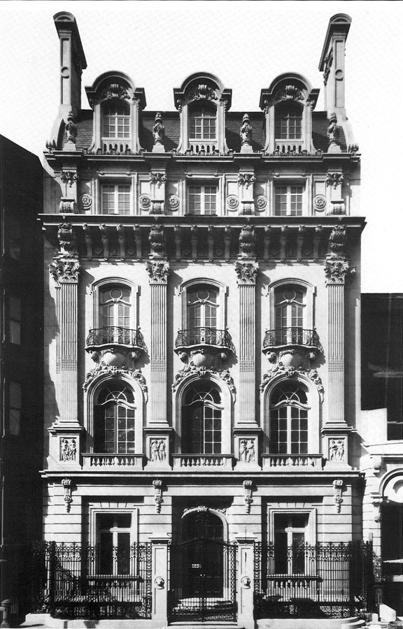 The Fabbri-Steele Mansion was designed and built in the Beaux-Arts style by the firm of Haydel & Shepard in 1900.